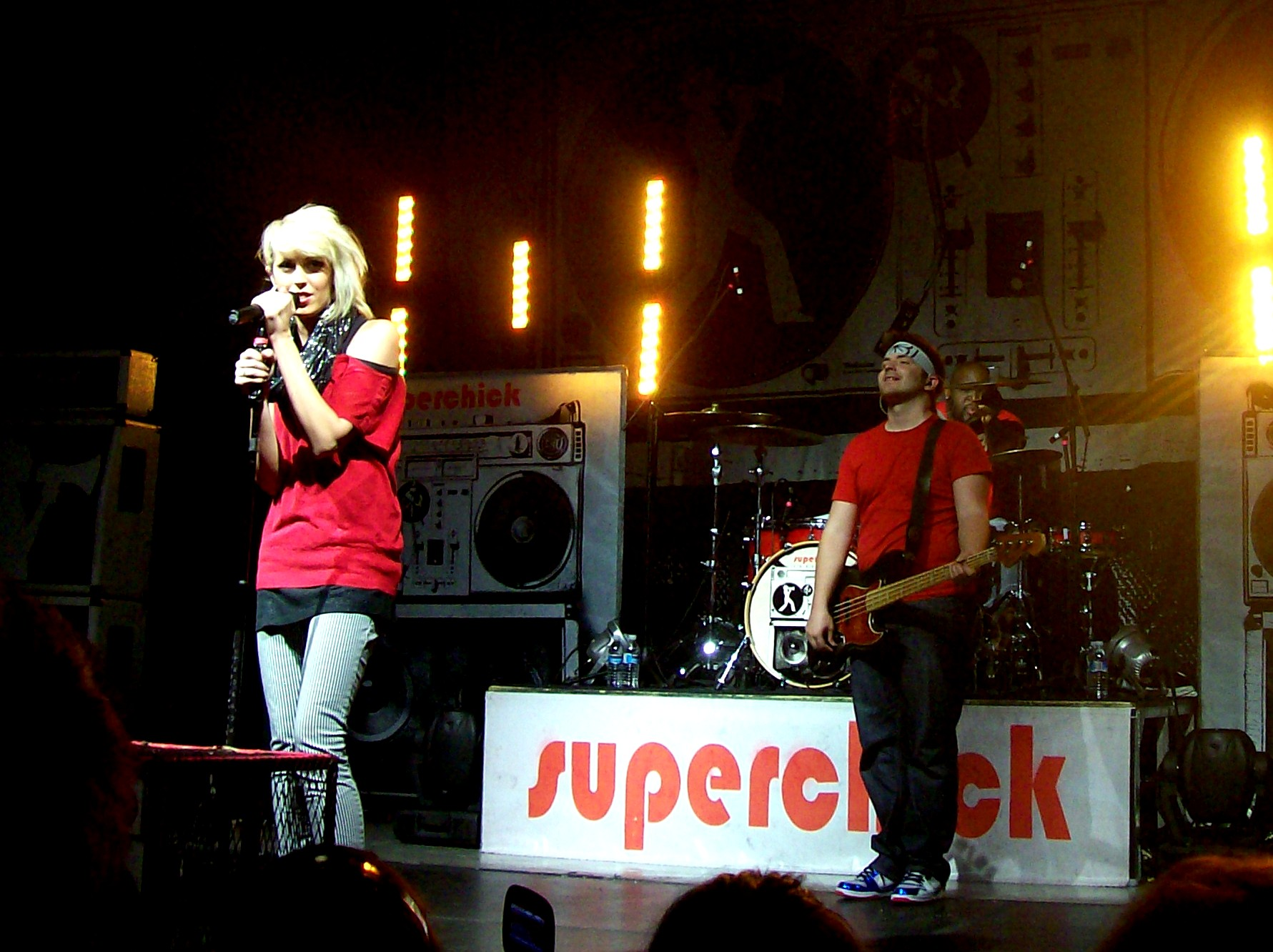 Superchick Live in Dallas